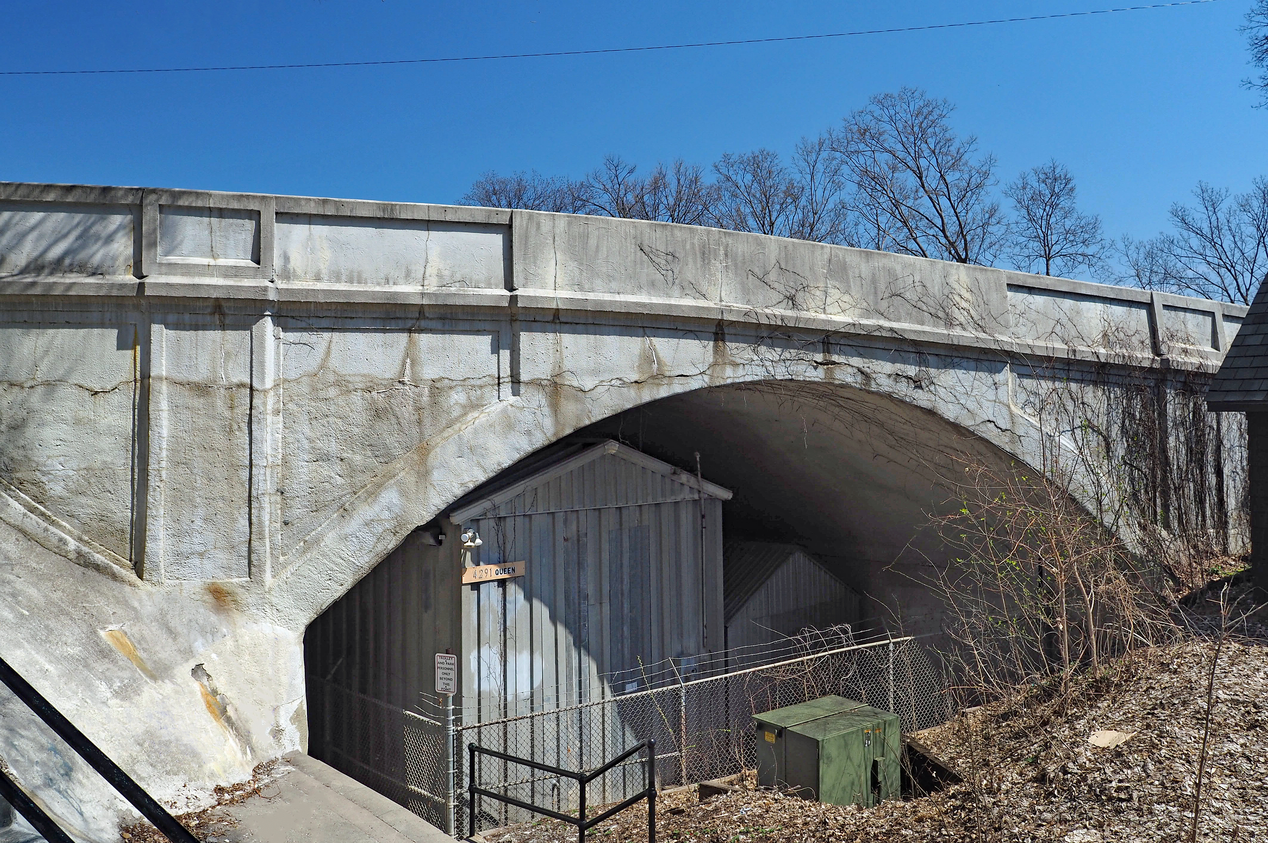 Queen Ave Bridge, Minneapolis, Minnesota, USA. Viewed from the southwest.